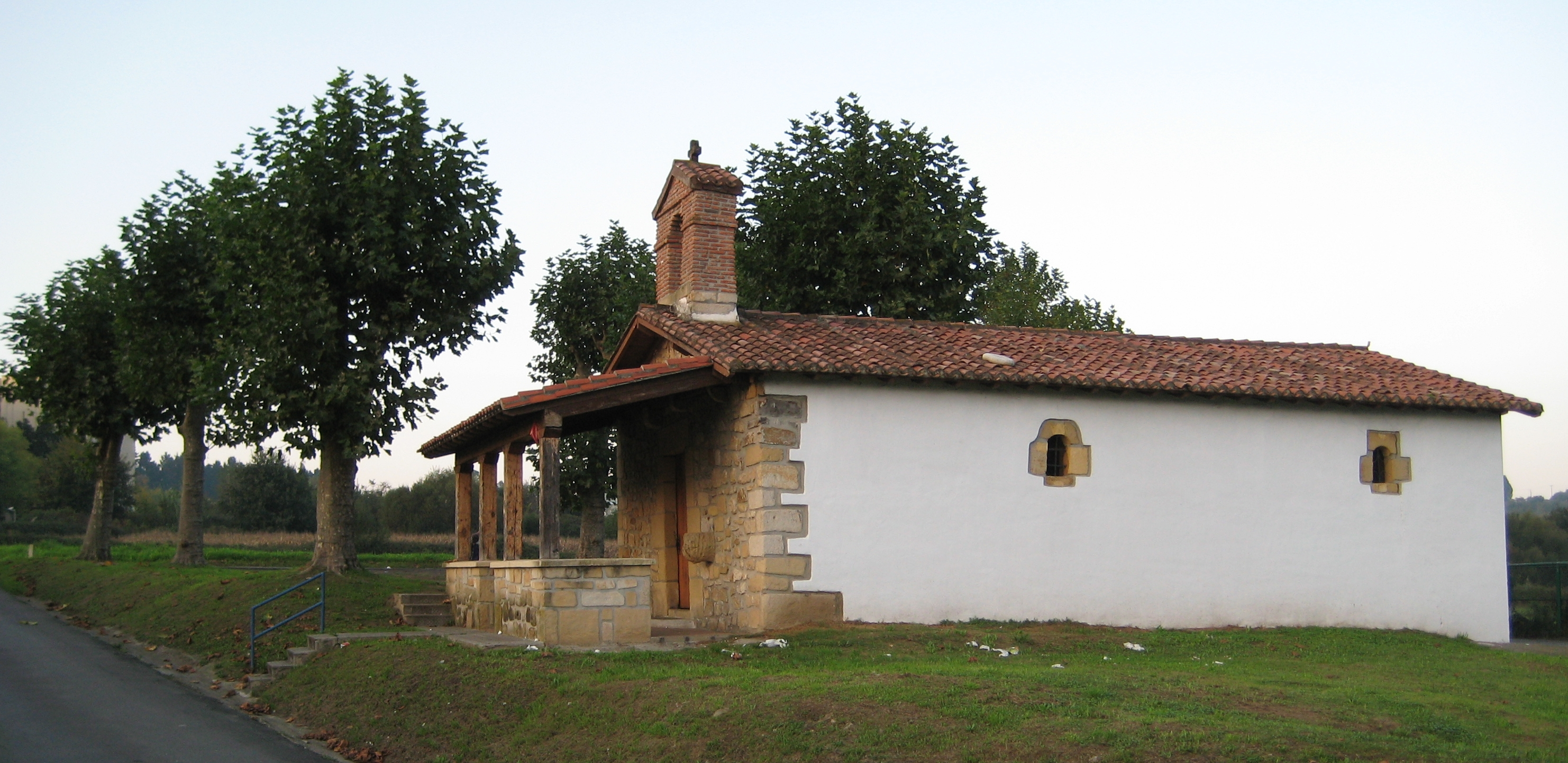 2007-10-27 Saint Mammes (Santi Mami / San Mamés) hermit, in Erandio. Behind, Santi Mami field, in Lejona / Leioa. Biscay.